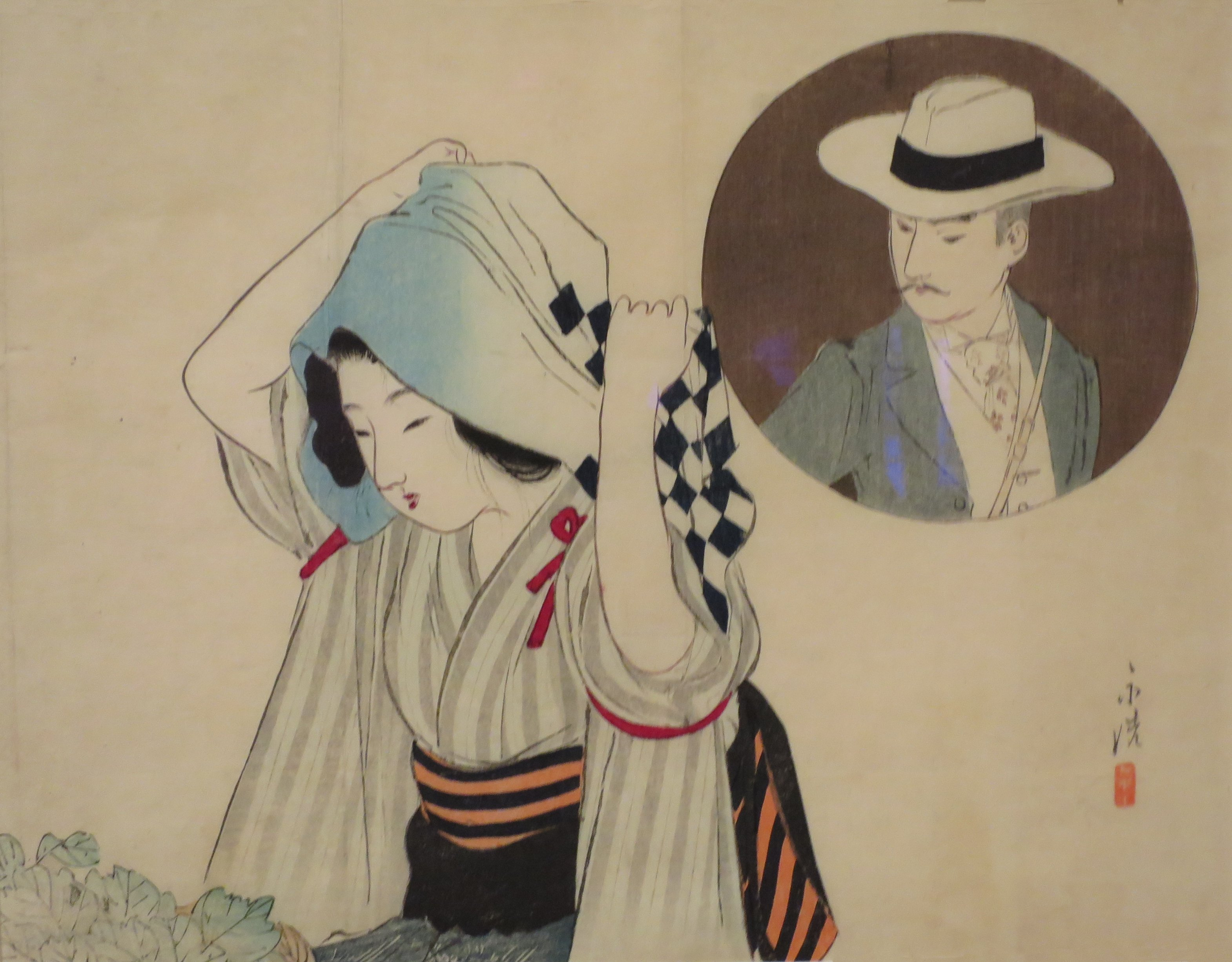 Hidden in Deep Mountains, woodblock print by Tomioka Eisen, 1900, Honolulu Museum of Art, accession 26924